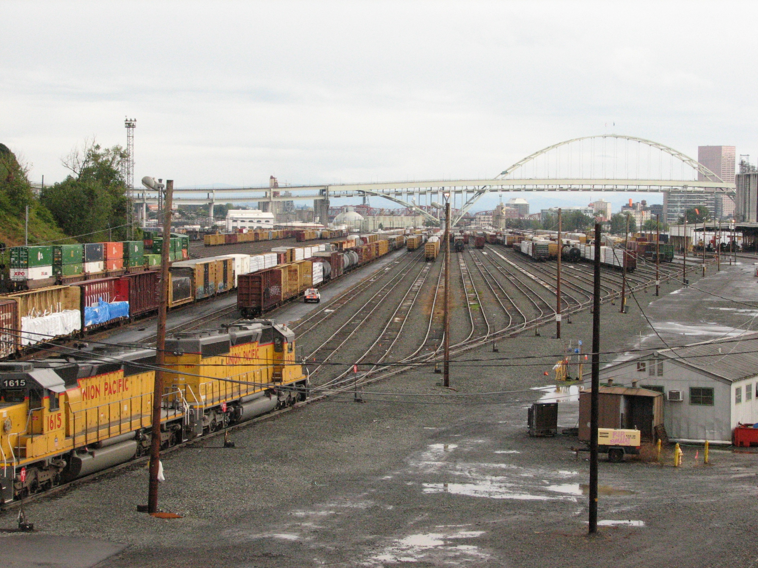 Union Pacific Albina Yard in Portland, Oregon taken at the far north end looking south from near the Maintenance of Way building